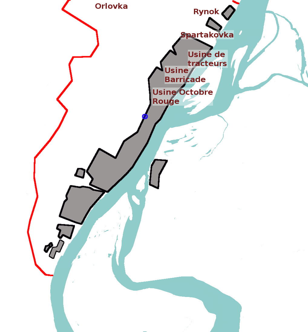 Stalingrad - German advance - 12 september 1942